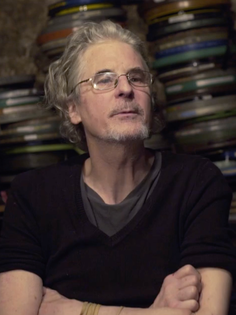 Craig Baldwin at Artists' Television Access in San Francisco, California, United States